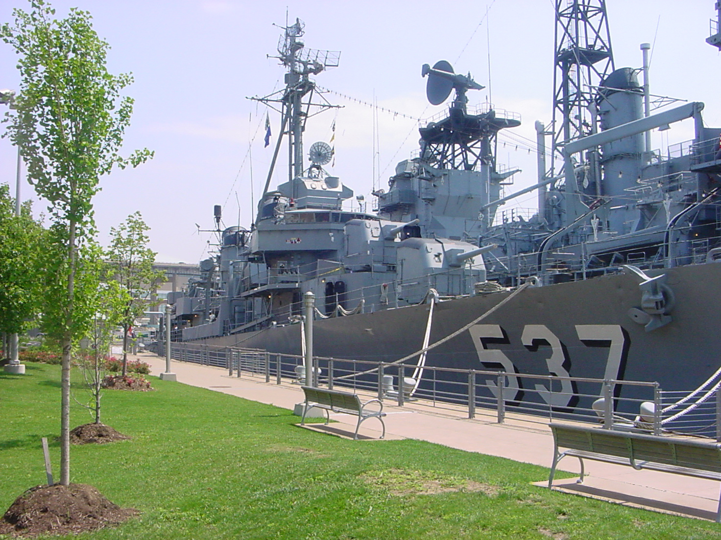 Photo I took of the U.S.S. The SullivansShinerunner 23:22, 19 July 2007 (UTC)